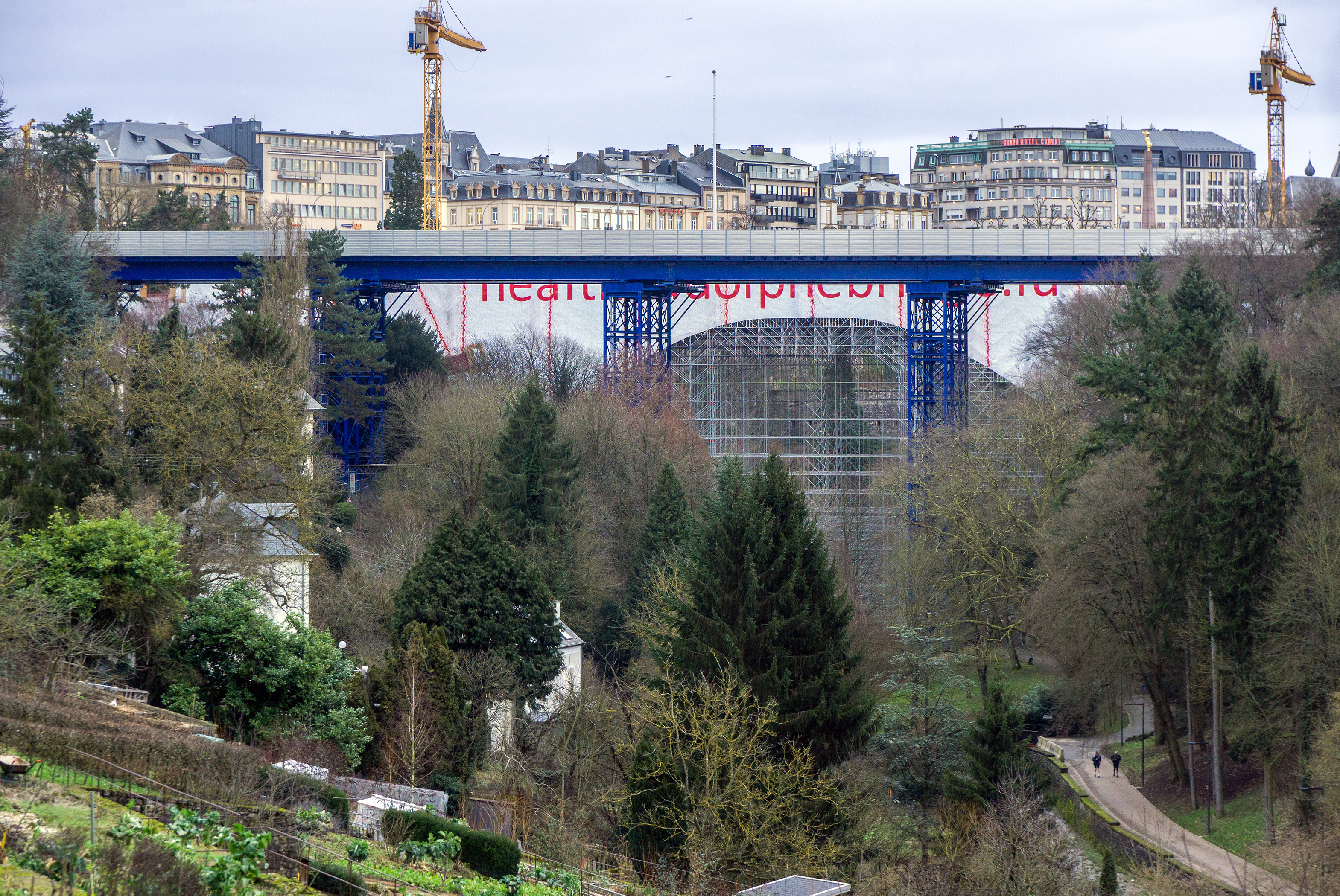 Blue bridge seen from west